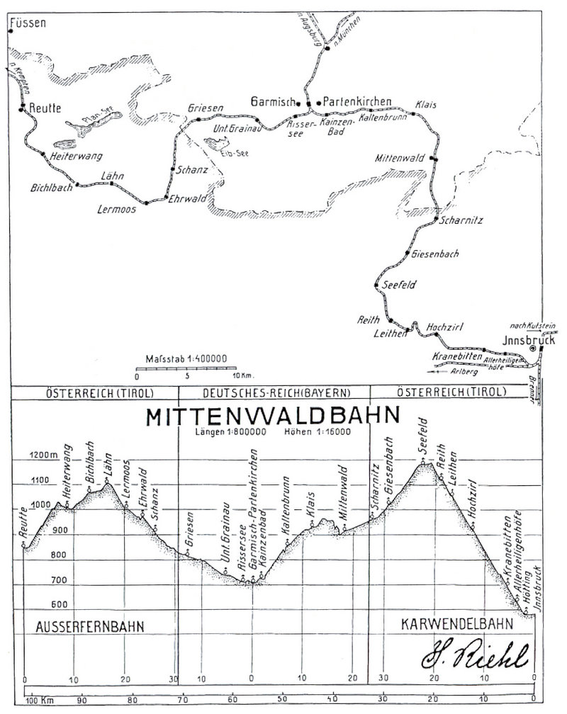 Track of the Außerfernbahn - Mittenwaldbahn/Karwendelbahn